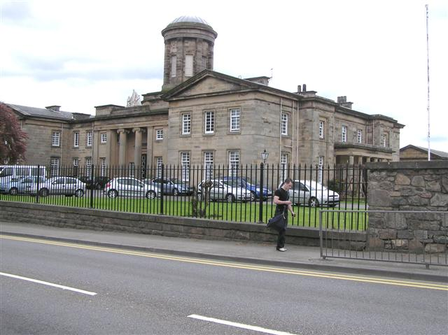 Anderson's Institution, Elgin It is a care home - more at